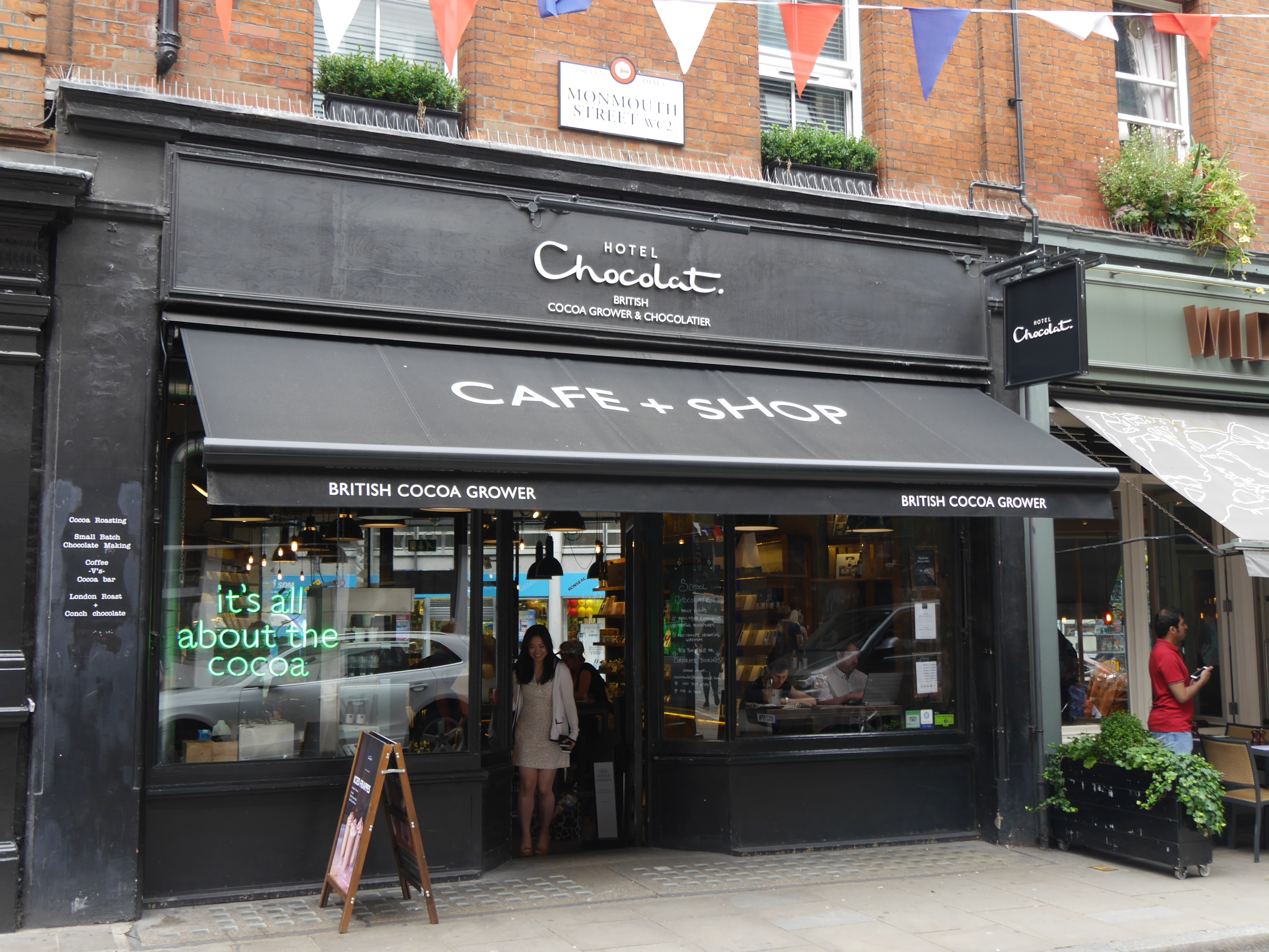 Monmouth Street, Covent Garden